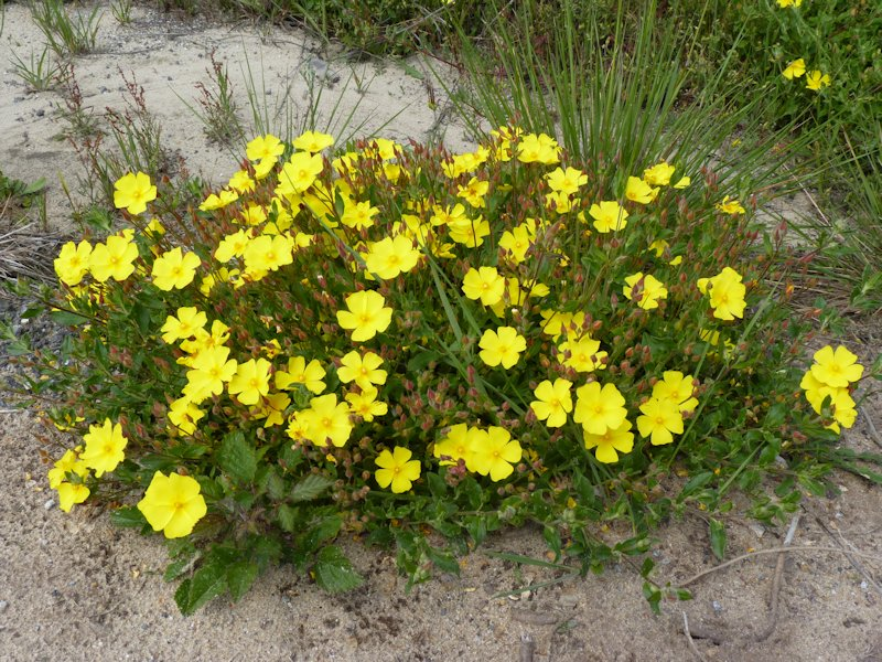 Halimium alyssoides (Syn. Halimium lasianthum subsp. alyssoides (Lam.) Greuter & Burdet)